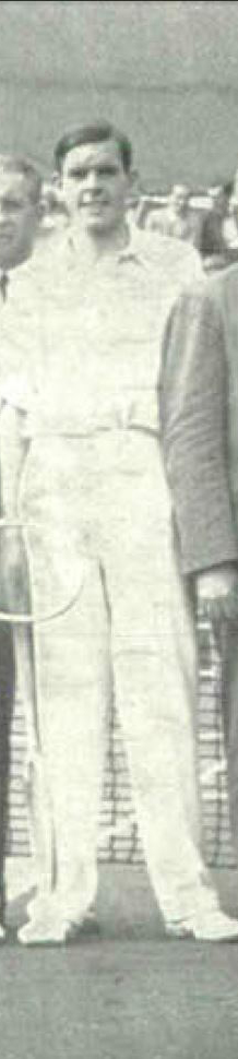 Ian Collins